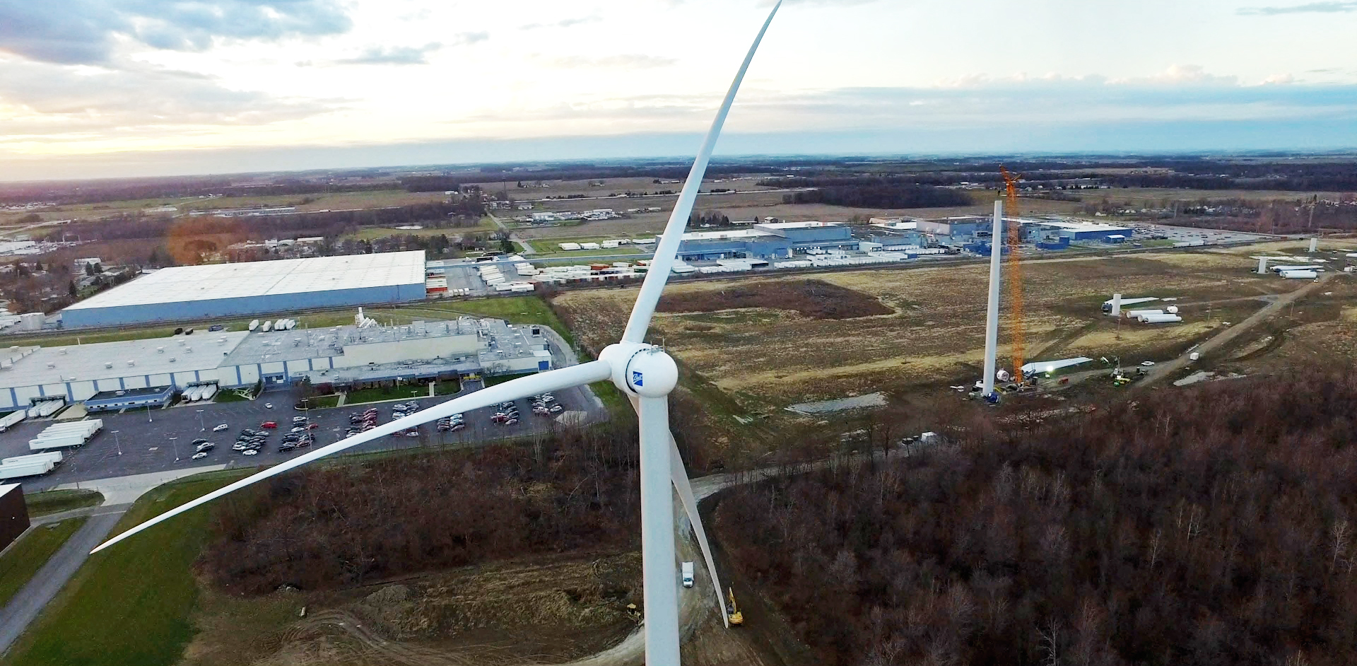 One Energy wind turbine build for Ball Corporation in Findlay, Ohio, overlooking the Ball metal facility.